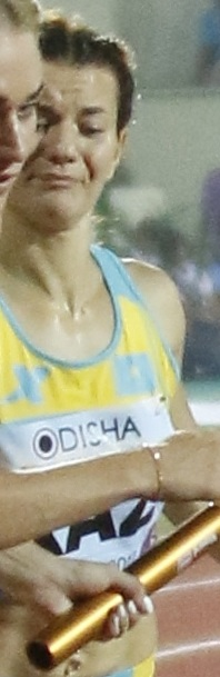 Women's 4x400m Relay Povamma Getting The Baton From Debashree Mazumdar at the 2017 Asian Athletics Championships at the Kalinga Stadium in Bhubaneswar, India